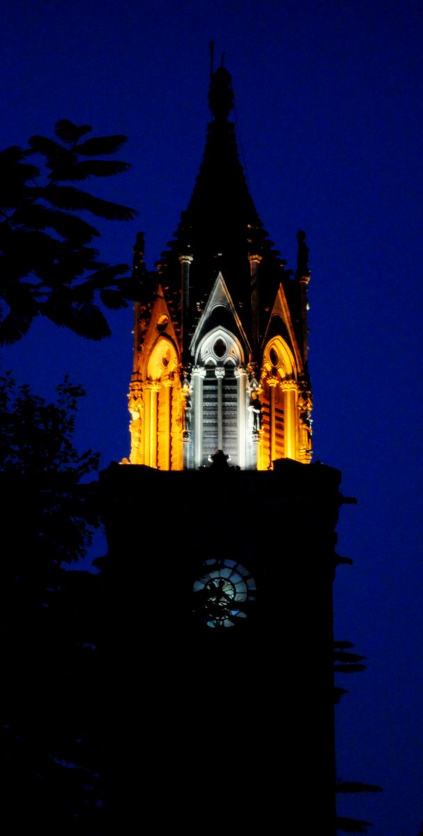 Rajabai Clock Tower in University of Mumbai, Fort Campus lit up at night.